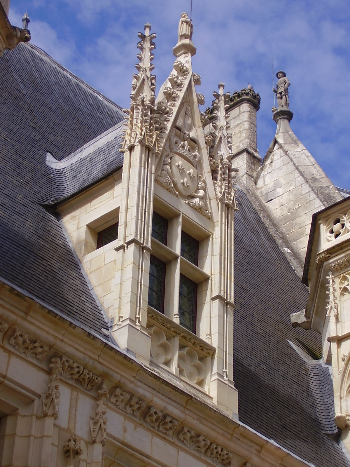 A window on Jacques Coeur Palace (Bourges, France)